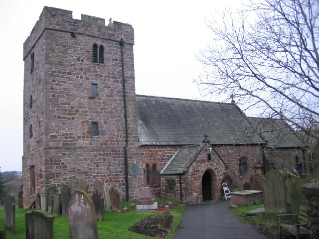 Dearham Church. Looks old.